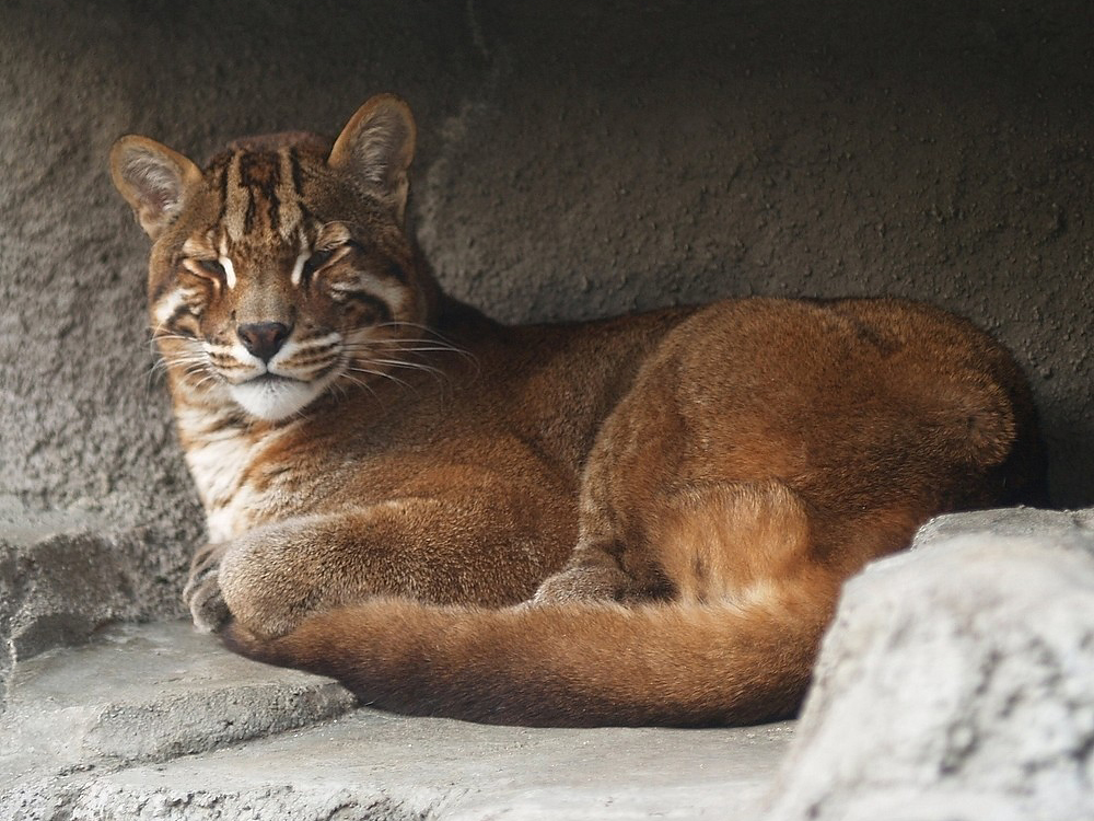 Asiatic Golden Cat